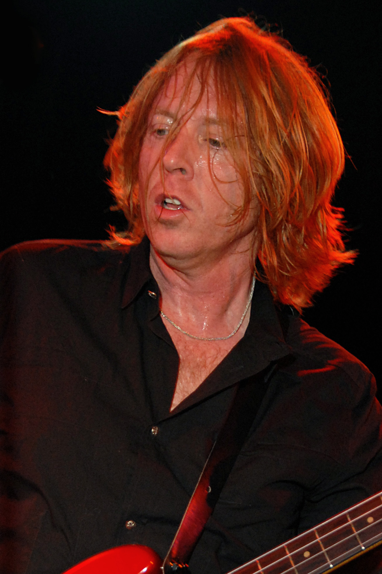 Jeff Pilson performing at The Roxy, West Hollywood, CA on Oct. 11, 2009 - Photo by Glenn Francis of